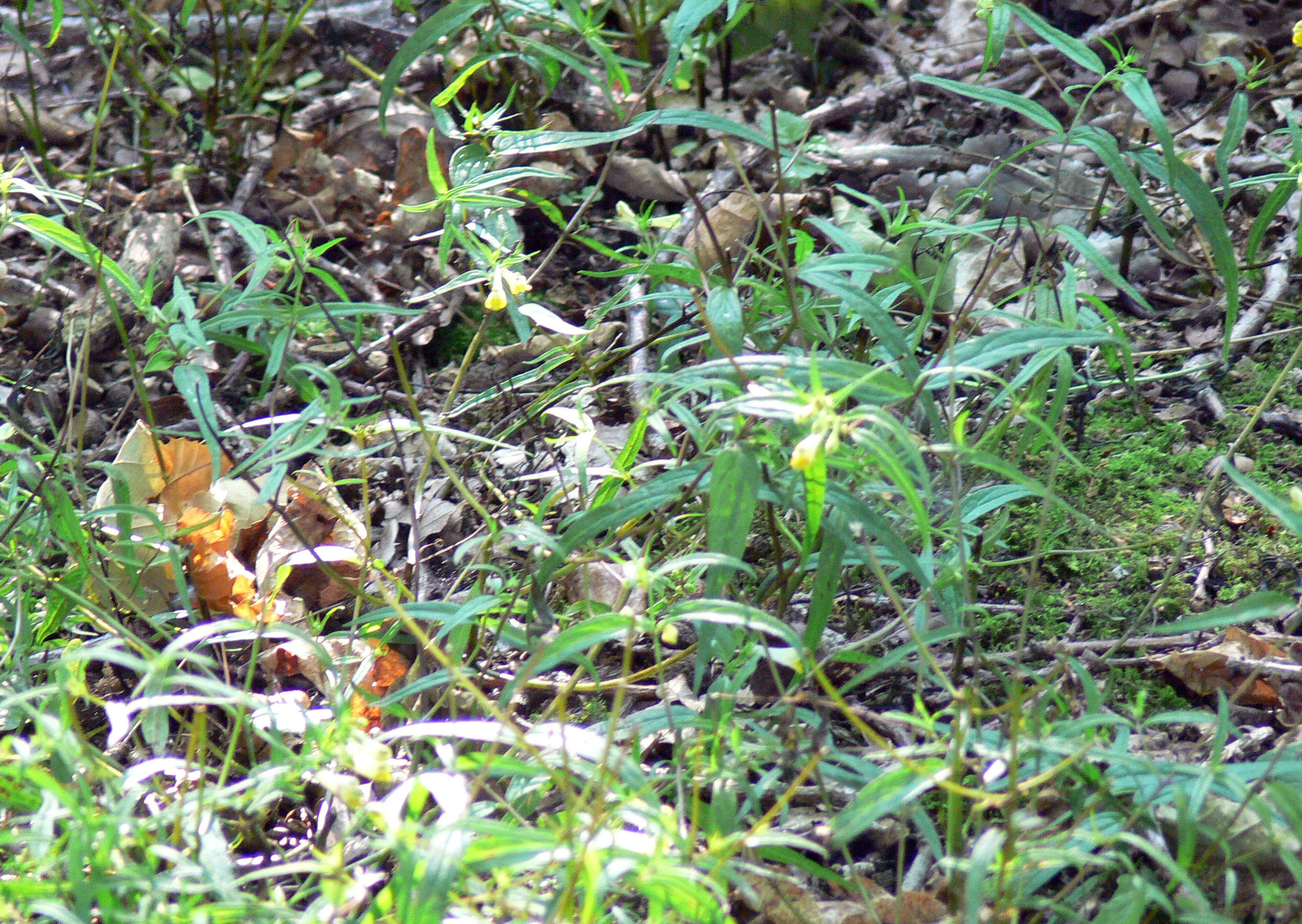 Melampyrum Pratense, Wildwood, Kent, United Kingdom